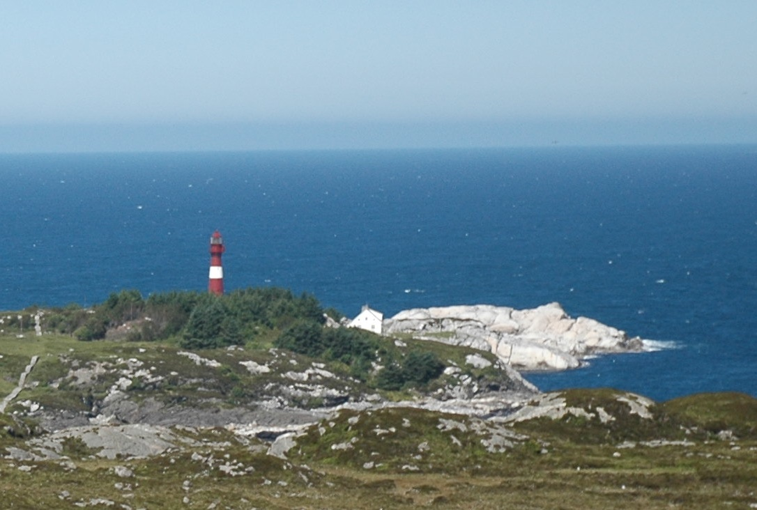 Slåtterøy lighthouse, located in southern Hordaland County, Norway